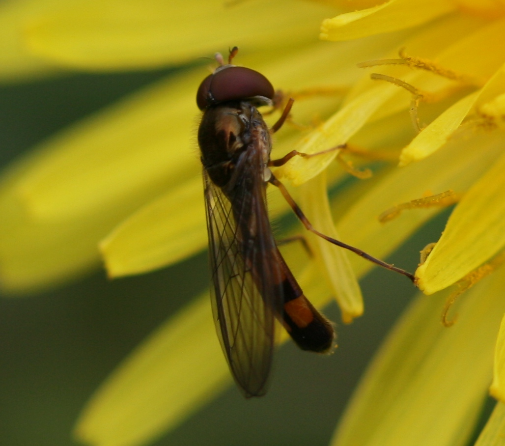 Melanostoma scalare (male)